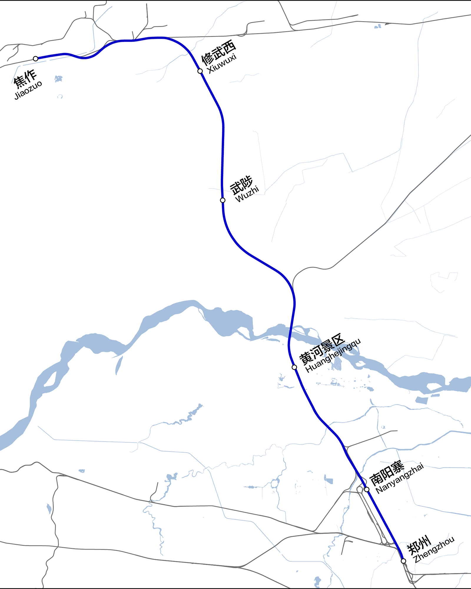 Route map of Zhengzhou-Jiaozuo Intercity Railway